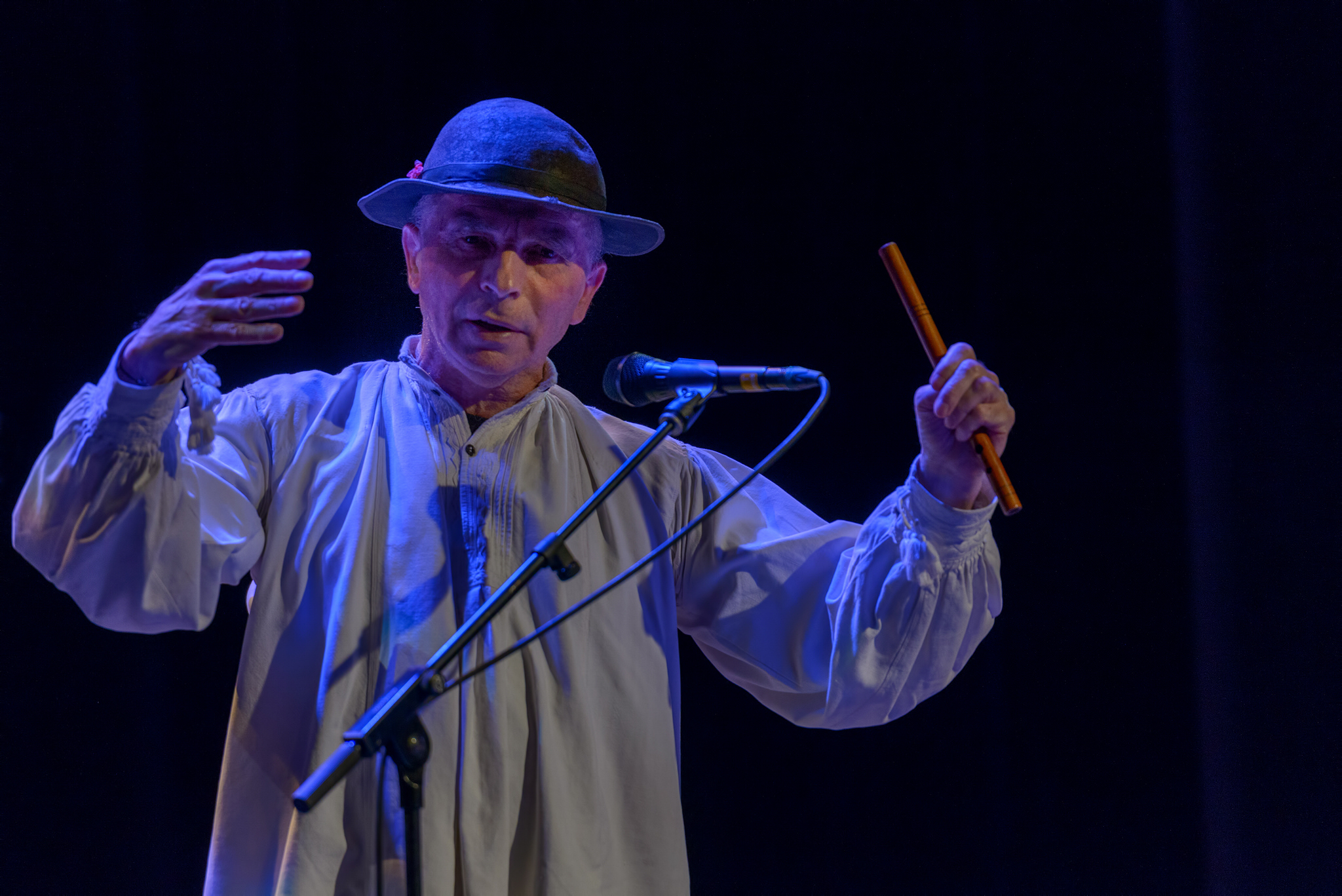 @Marian Baciu